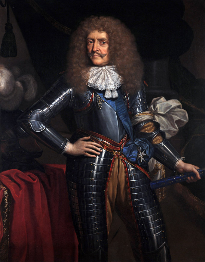 Portrait of Antoine III de Gramont, Marshal of France (1604-1678)